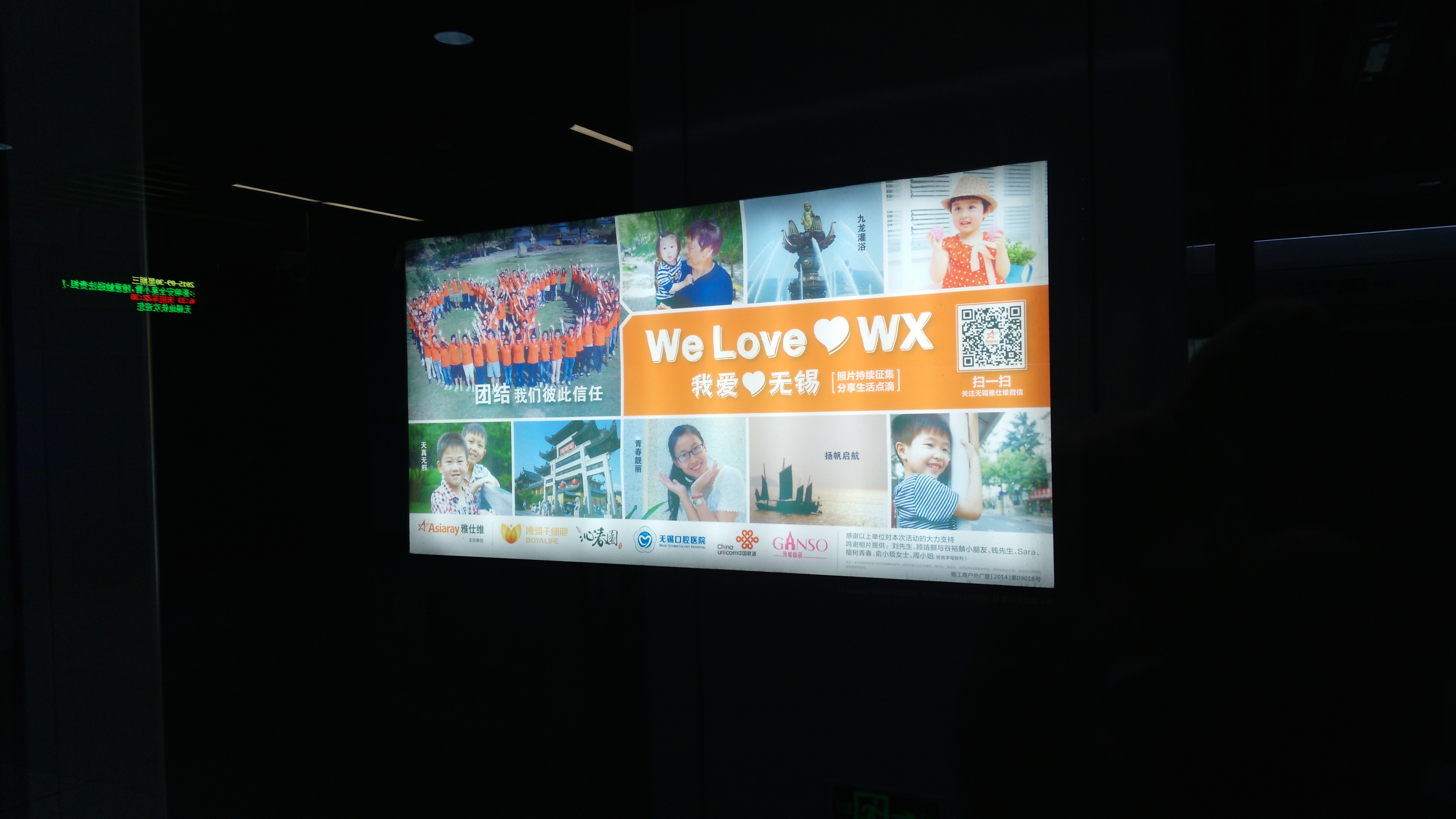 wuxi metro station screen